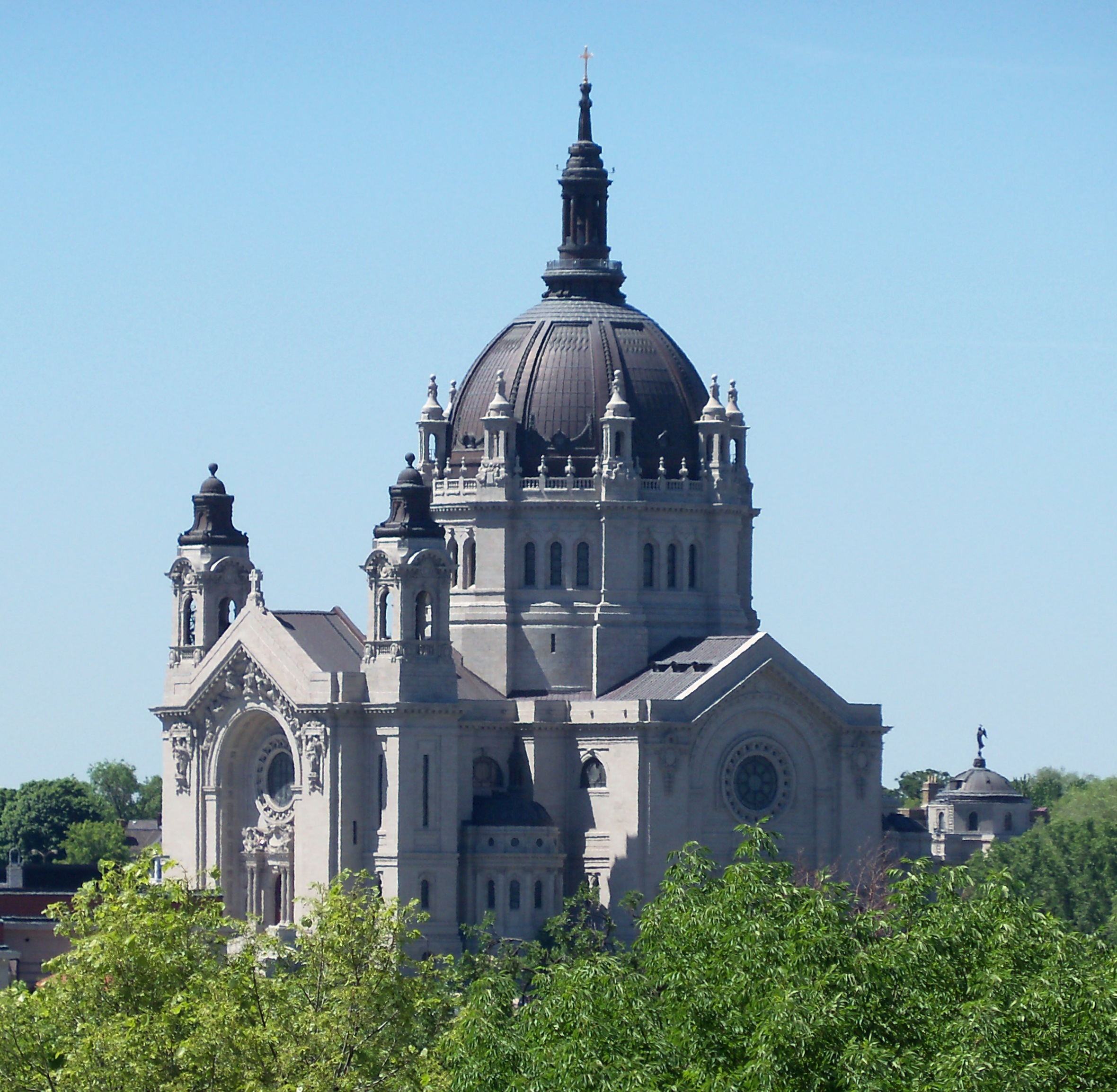 Cathedral of Saint Paul in St. Paul, Minnesota, USA. Taken from the Minnesota Capitol building.